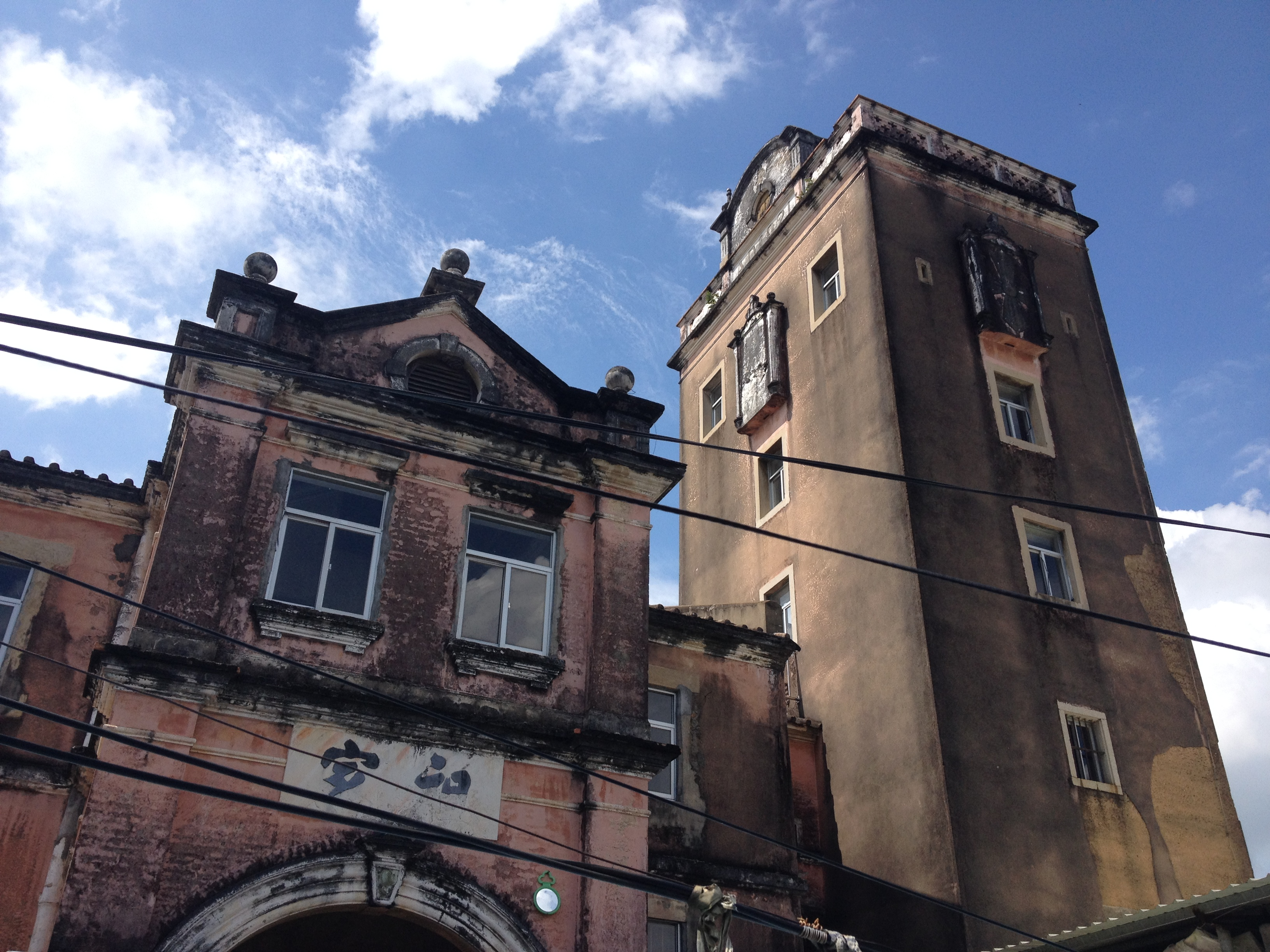 a Hakka tower (with attached house) in GuangDong DongGuan QingXi Town